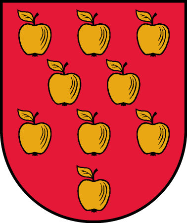 Coat of arms of Krimulda municipality